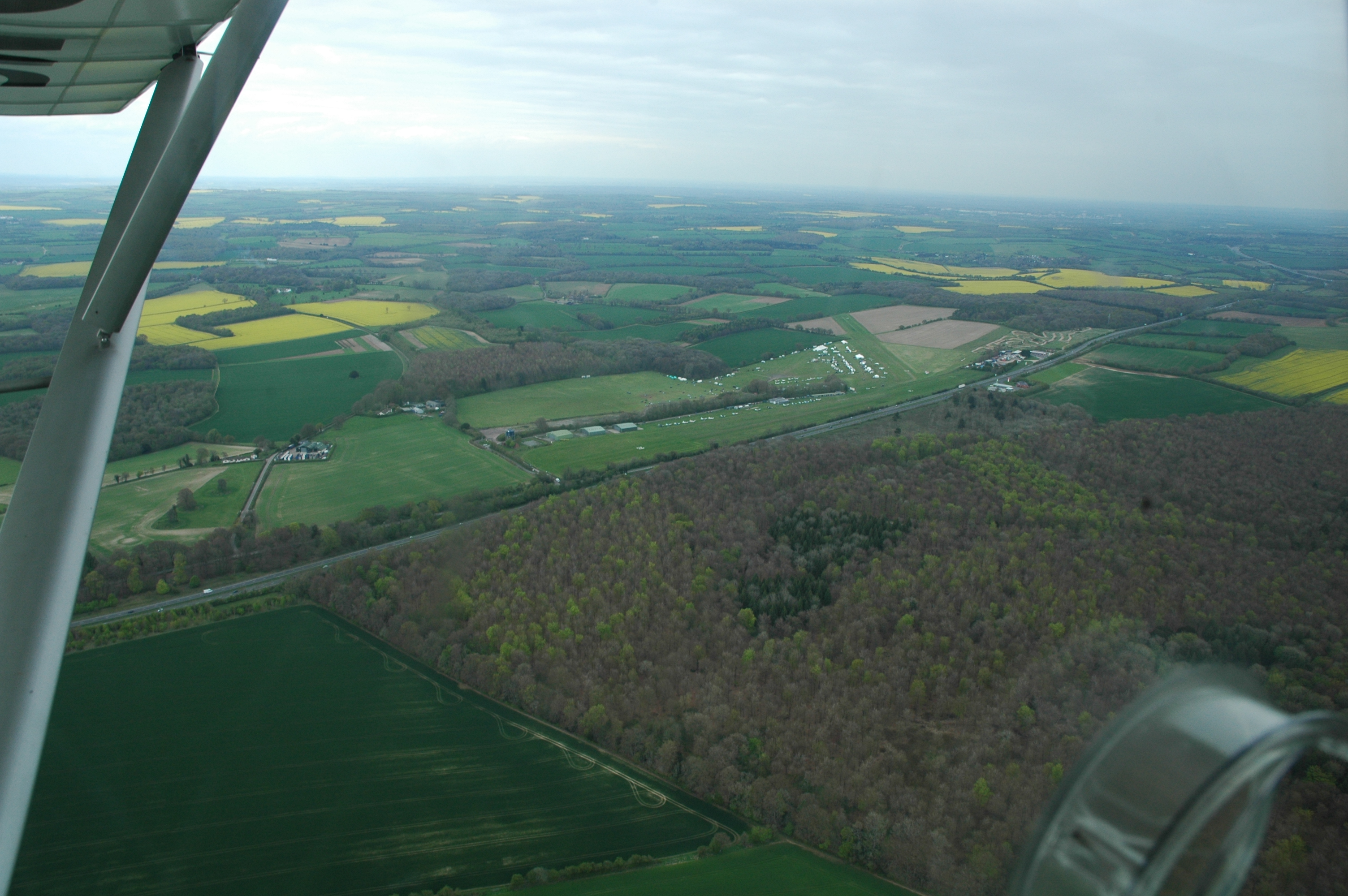 A photo of what Popham Airfeild looks like from an aircraft